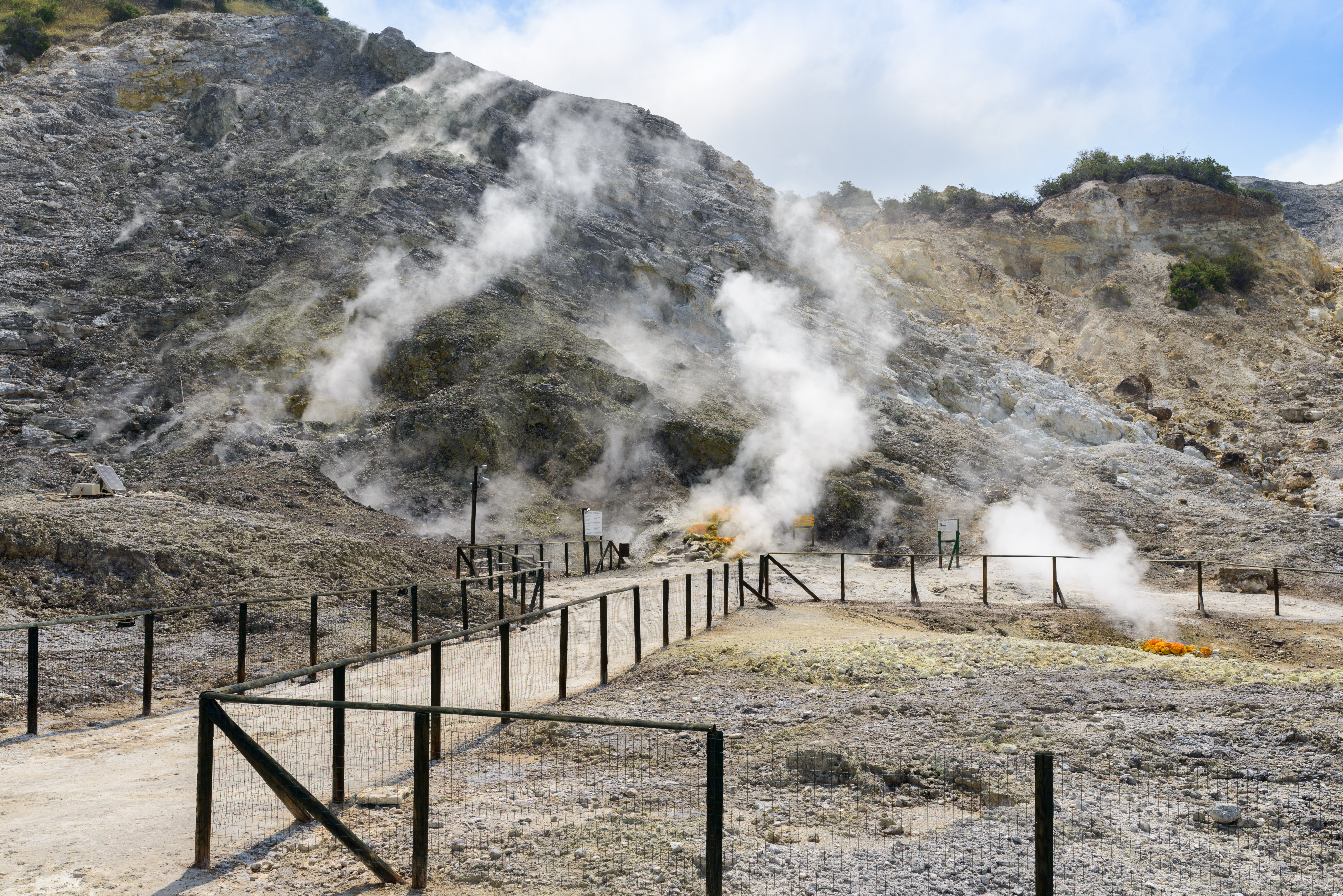 Fumarole, Solfatara (Pozzuoli), Campi Flegrei, Campania, Italy.